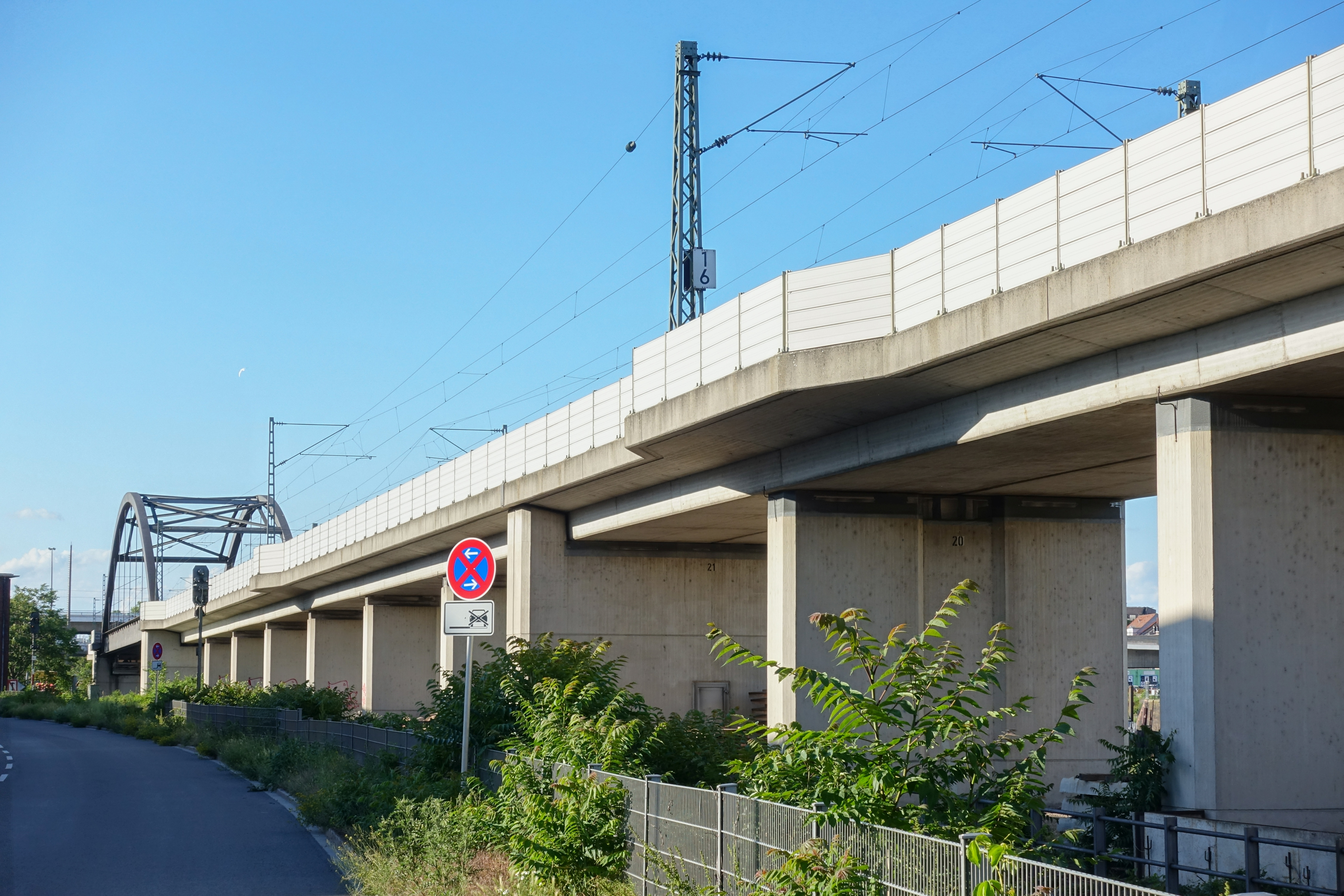 Western approach of the Riedbahn, Mannheim-Handelshafen, Germany